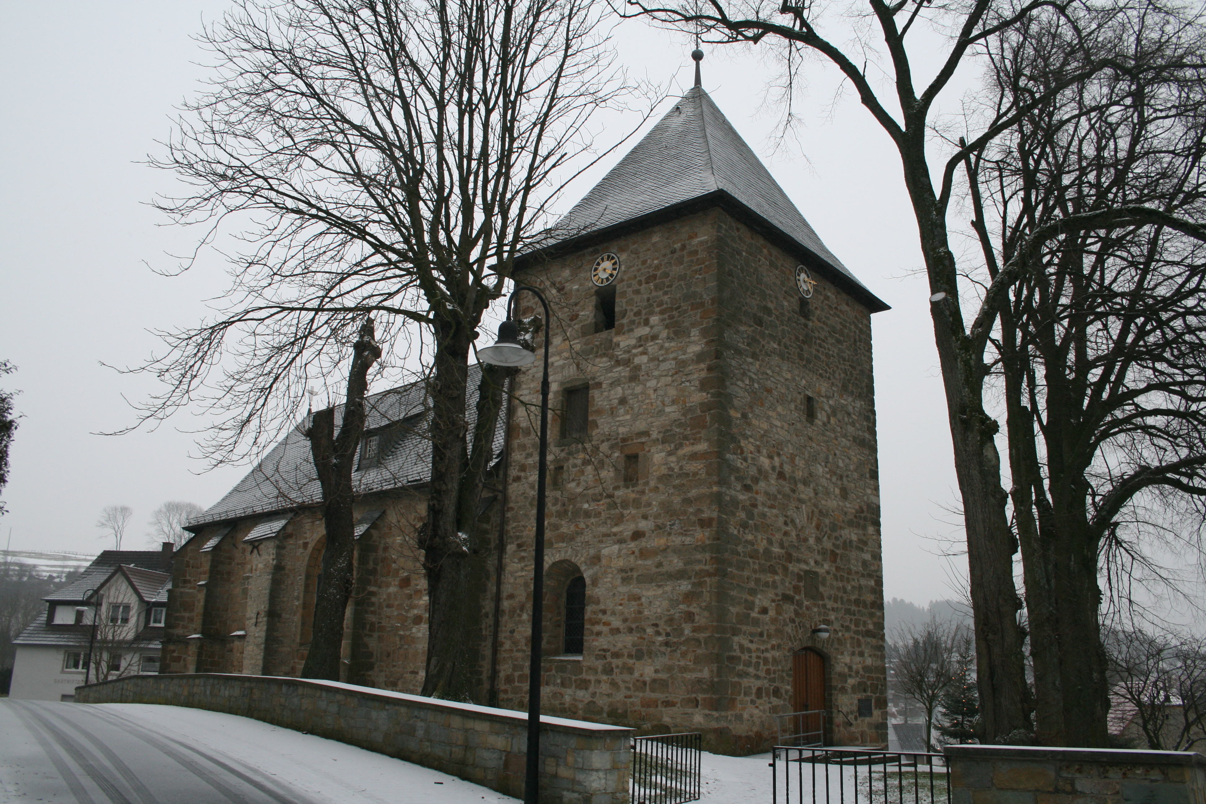 St. Vitus Church Hegensdorf